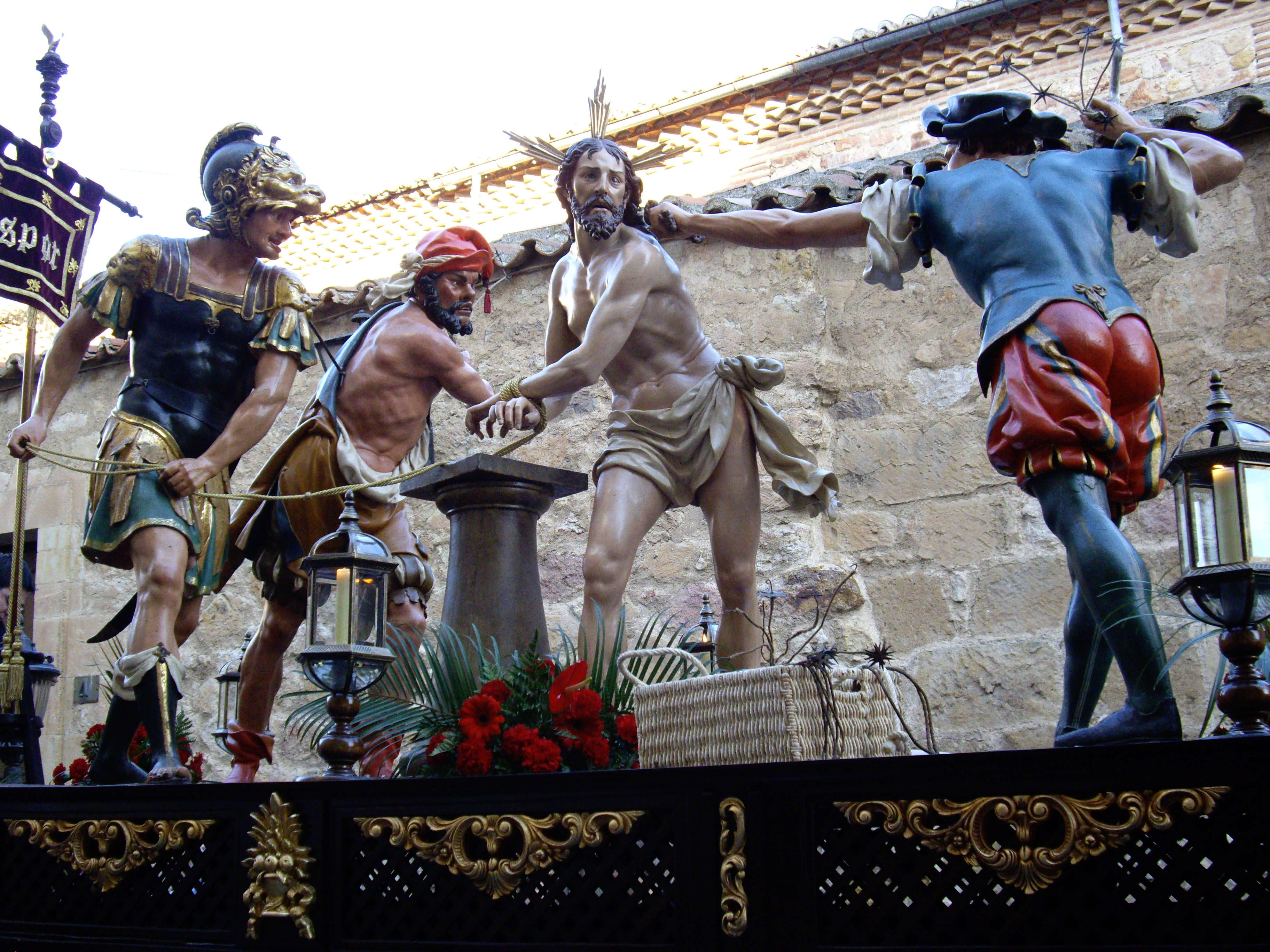 Float of the Flagellation of Christ, sculptures by Alejandro Carnicero (1724), Salamanca (Spain)